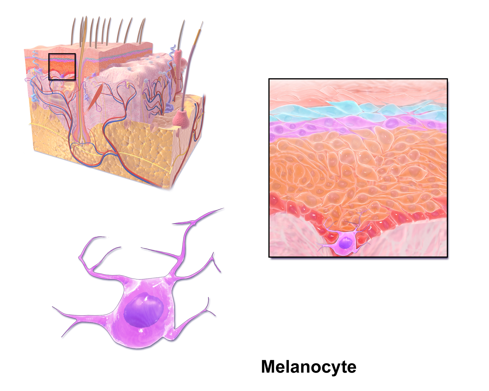 Melanocyte. See a related animation of this medical topic.